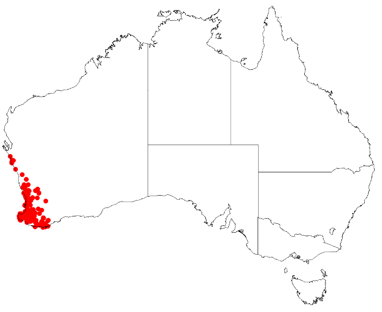 Conostylis aculeata Occurrence data downloaded from Australasian Virtual Herbarium on 12 May 2017